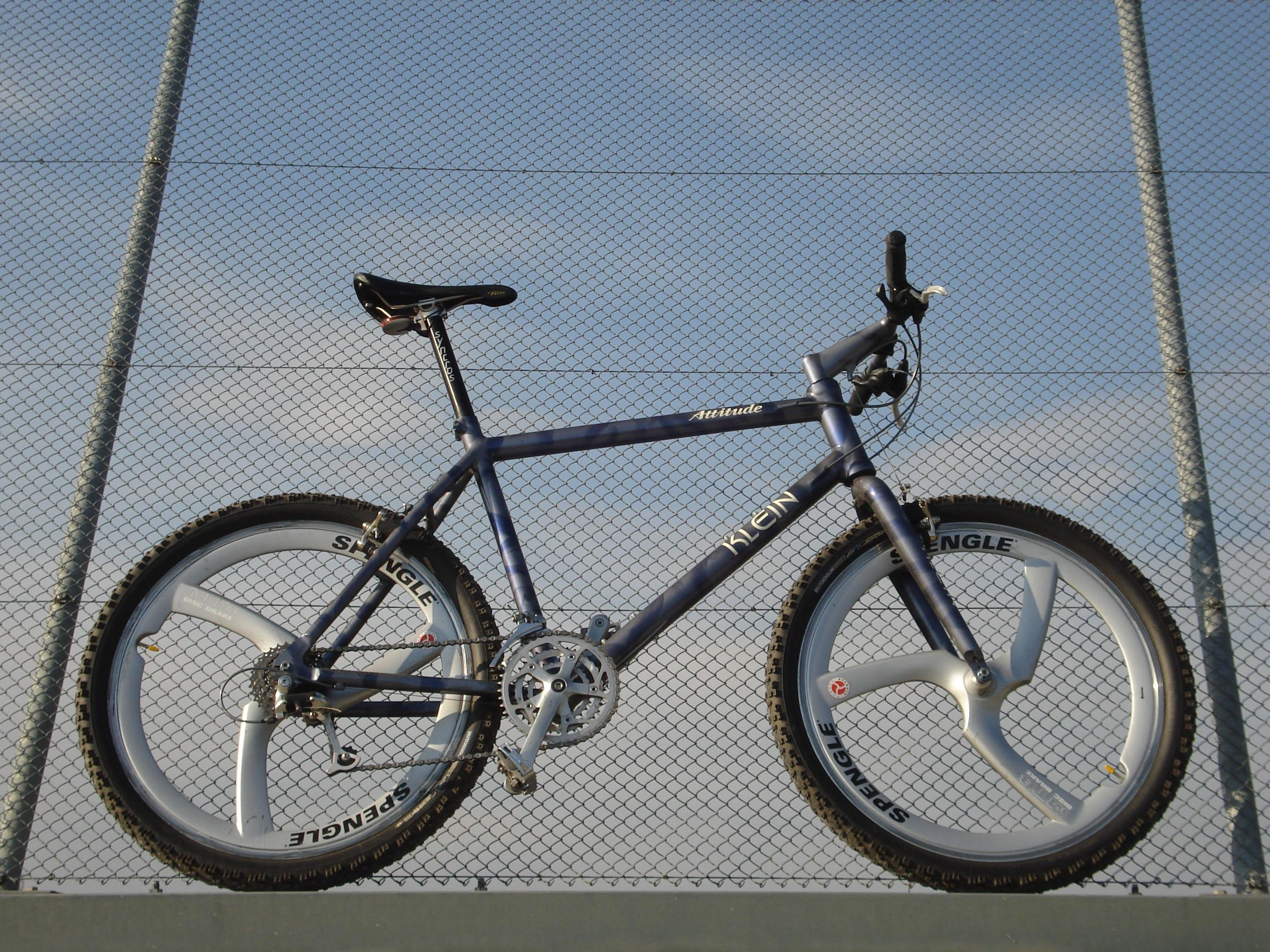 Klein Attitude Gossomer Paint (1994)